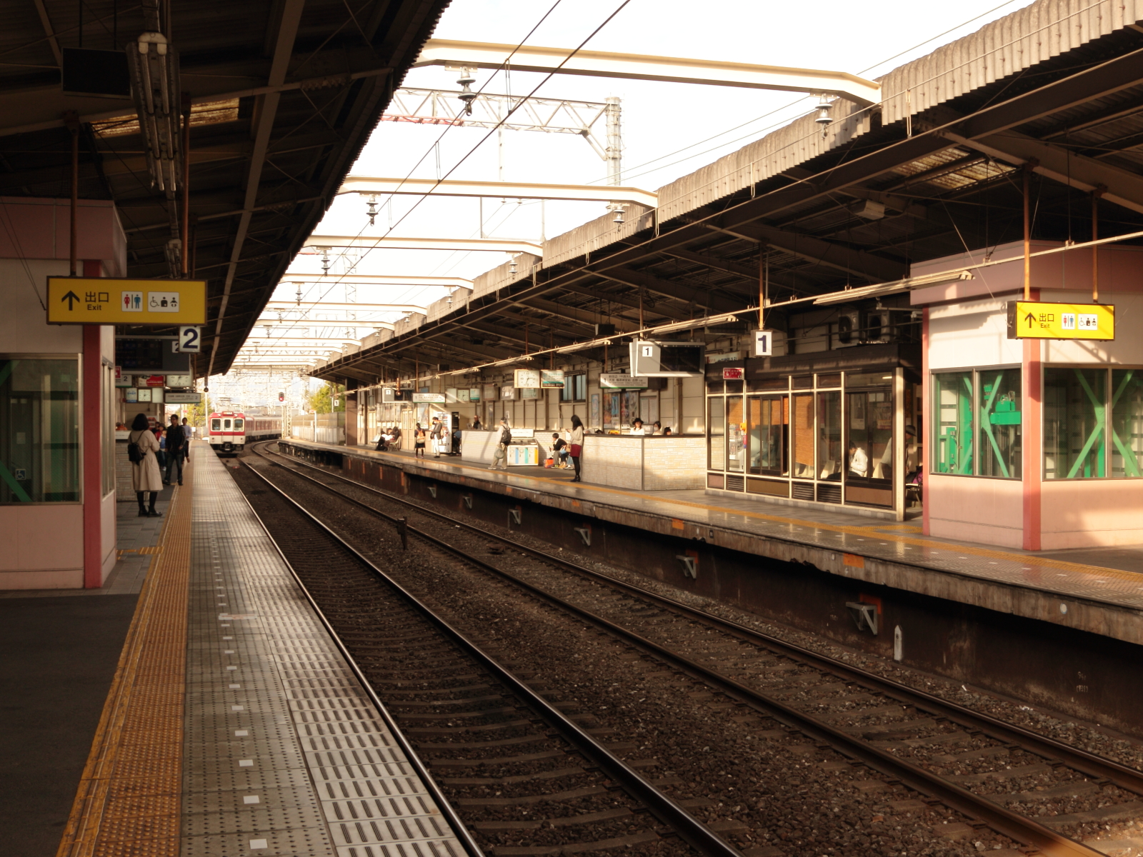 Platform from Momoyamagoryōmae Station.